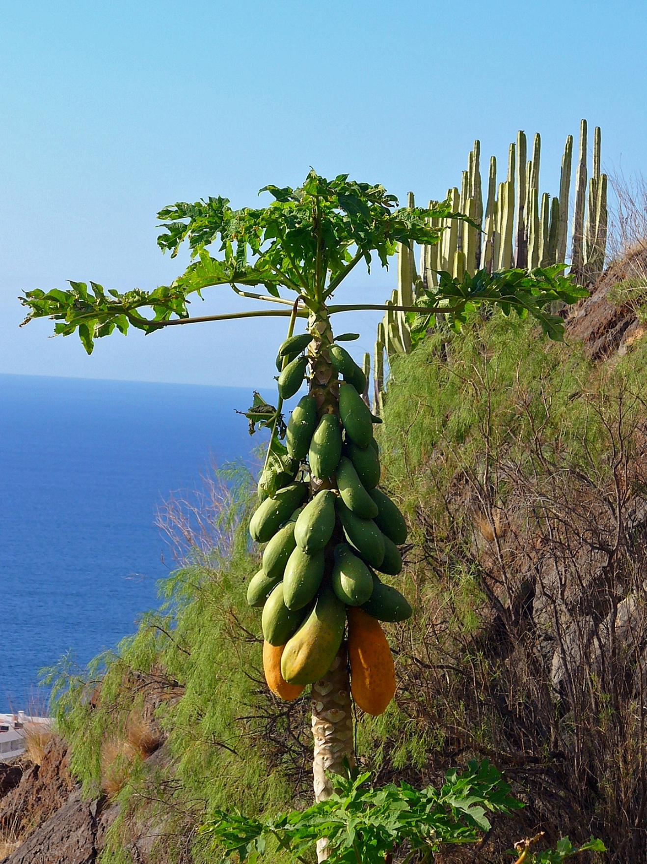 Carica papaya, Caricaceae, Papaya, habitus; Acantilado de los Gigantes, Tenerife, Spain. The leaves are used in homeopathy as remedy: Carica papaya (Cari-p.)